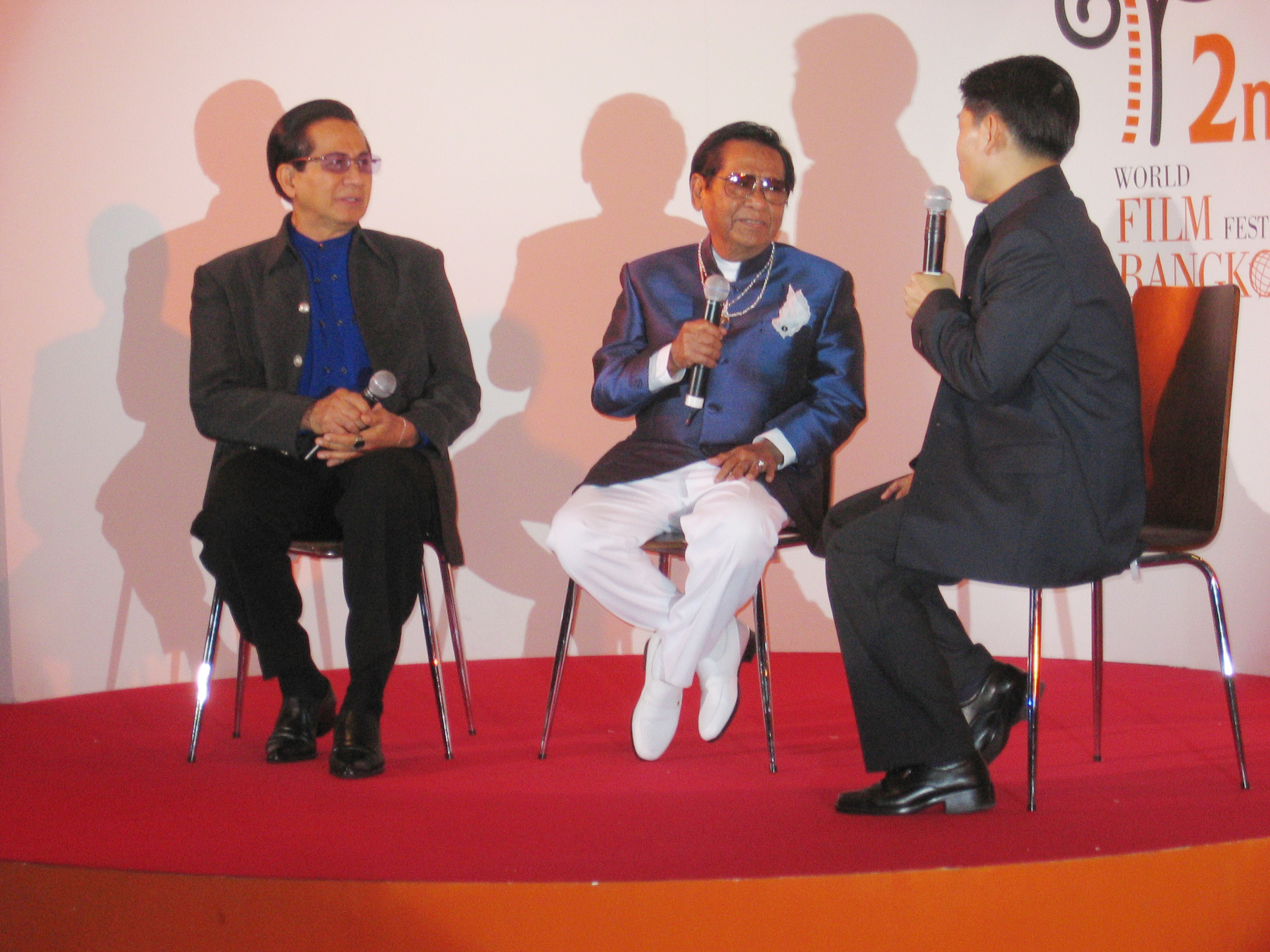 From left, Thai actor Sombat Metanee and director Dokdin Kanyamarn talk at the 2nd World Film Festival of Bangkok in 2004. A restored print of Dokdin's 1971 musical comedy Ai-Tui, starring Sombat, was screening at the festival.